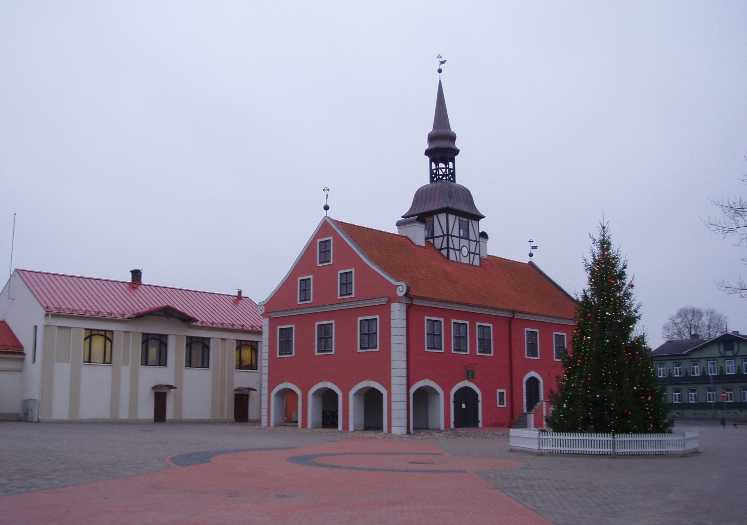 Restored Bauska Town Hall, Jaunuary 2014.